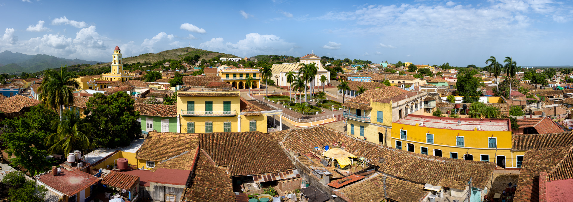 Panoramic view of Trinidad, Cuba.